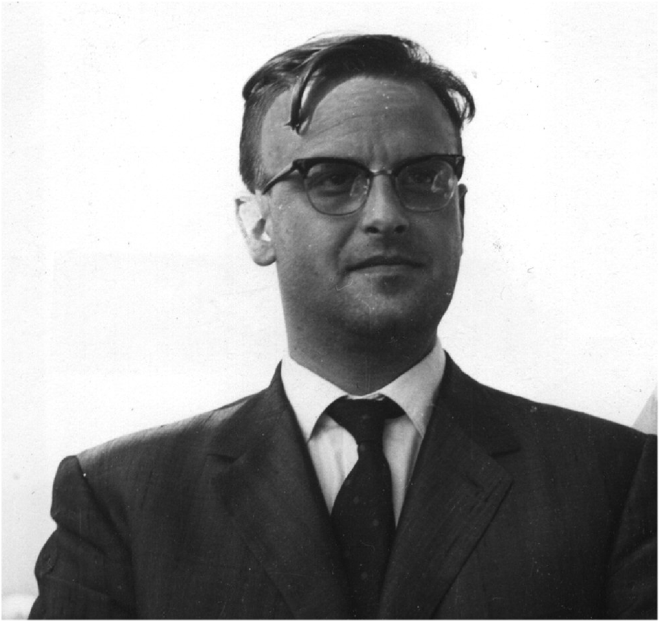 Framco Magni in the year 1961 during his collaboration with the nobel prize John Eccles